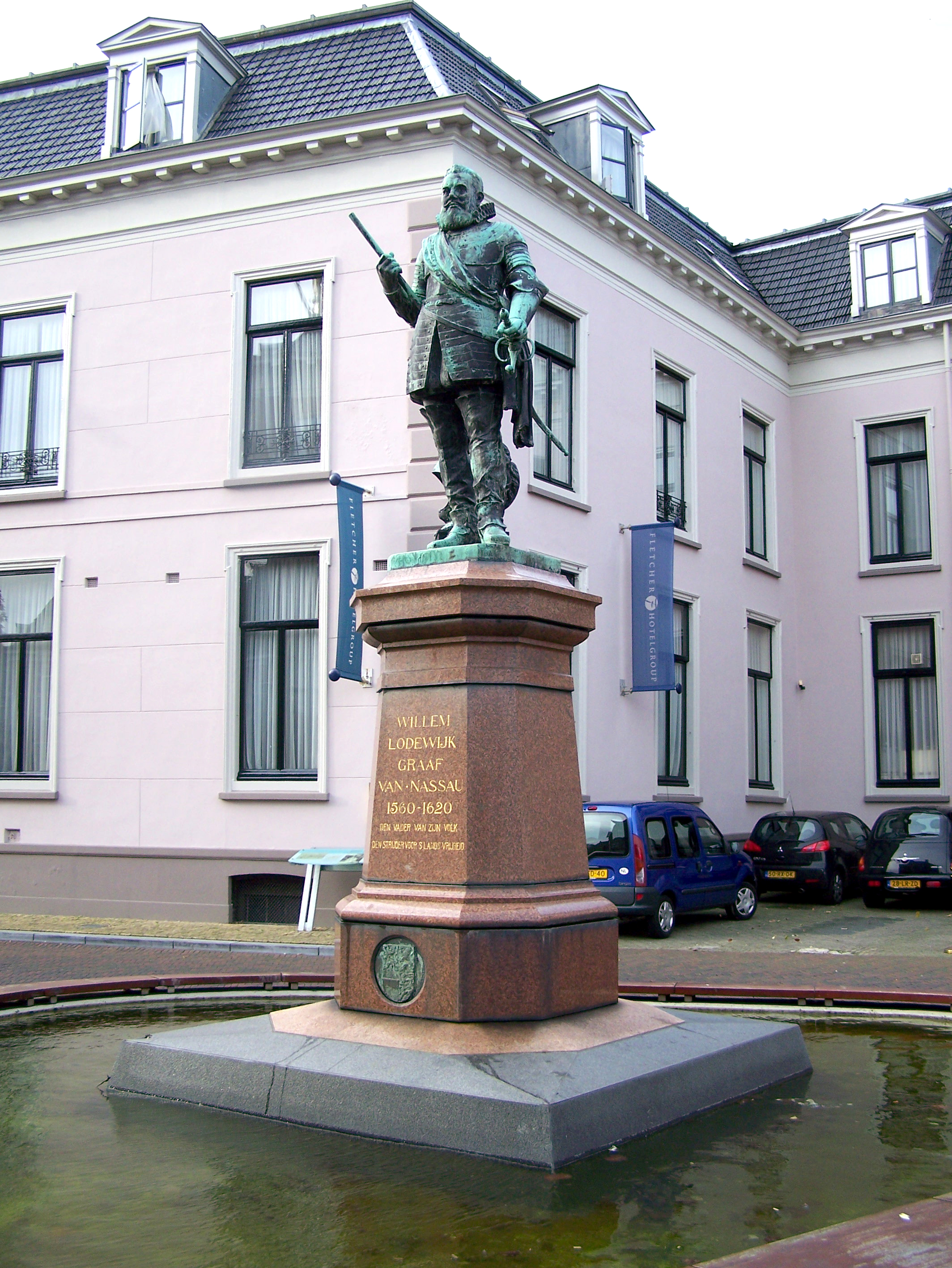 Statue of Willem Lodewijk van Nassau-Dillenburg (known as Us Heit = Our Father) at the Hofplein in Leeuwarden. Made by Bart van Hove in 1906.